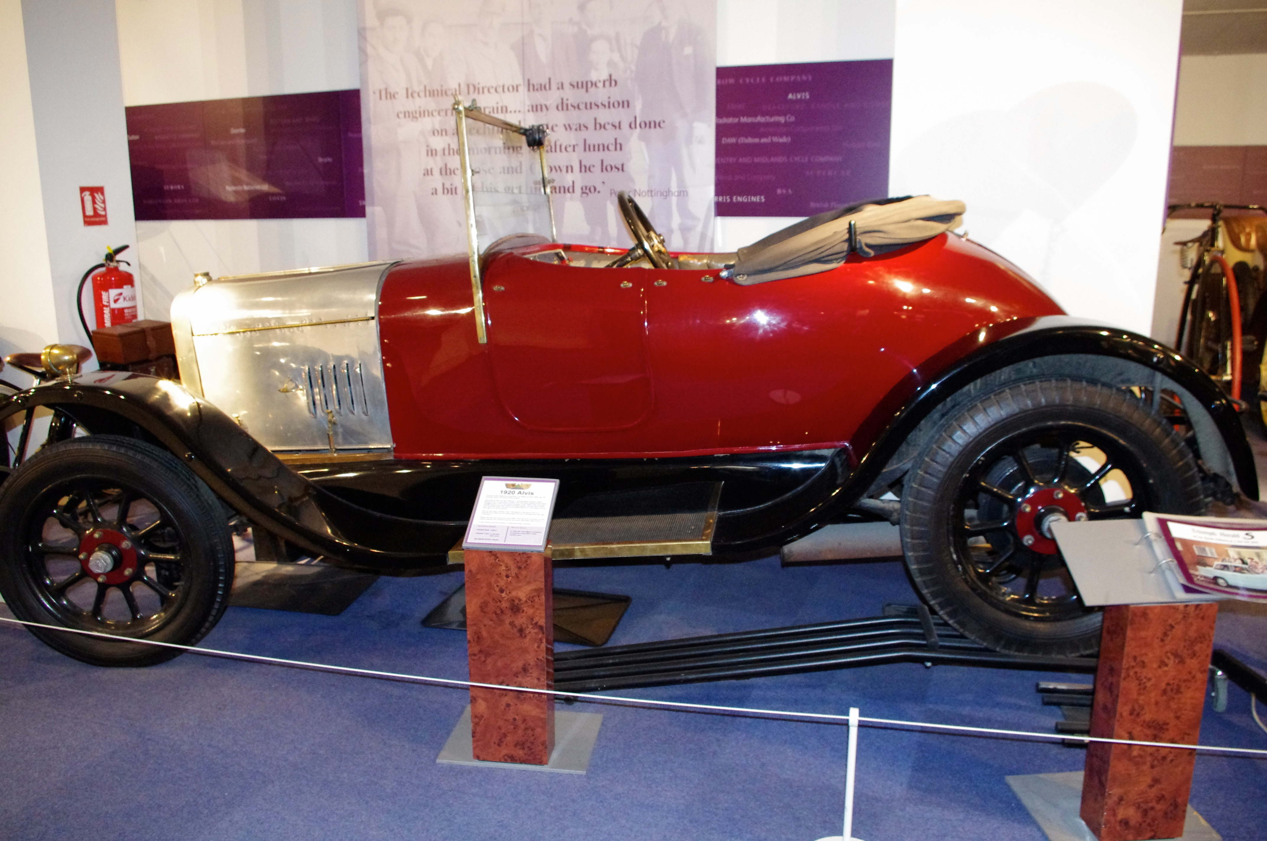 Alvis 10/30 1920 The oldest surviving Alvis in the world Coventry Transport Museum "1920 Alvis Car & Engineering Co. Model 10/ 30 The body of this car was made by a coachbuilding company called Morgan & Co. of Long Acre, London, which had been building horse drawn carriages since 1795. The body is unusual. In the 1920s most cars had a wooden frame onto which were fixed steel panels. This car has a framework of tubular steel with aluminium panels fixed to it. This makes the car very light so that it can go quickly. The car also has a “Dickey” seat." source of this information